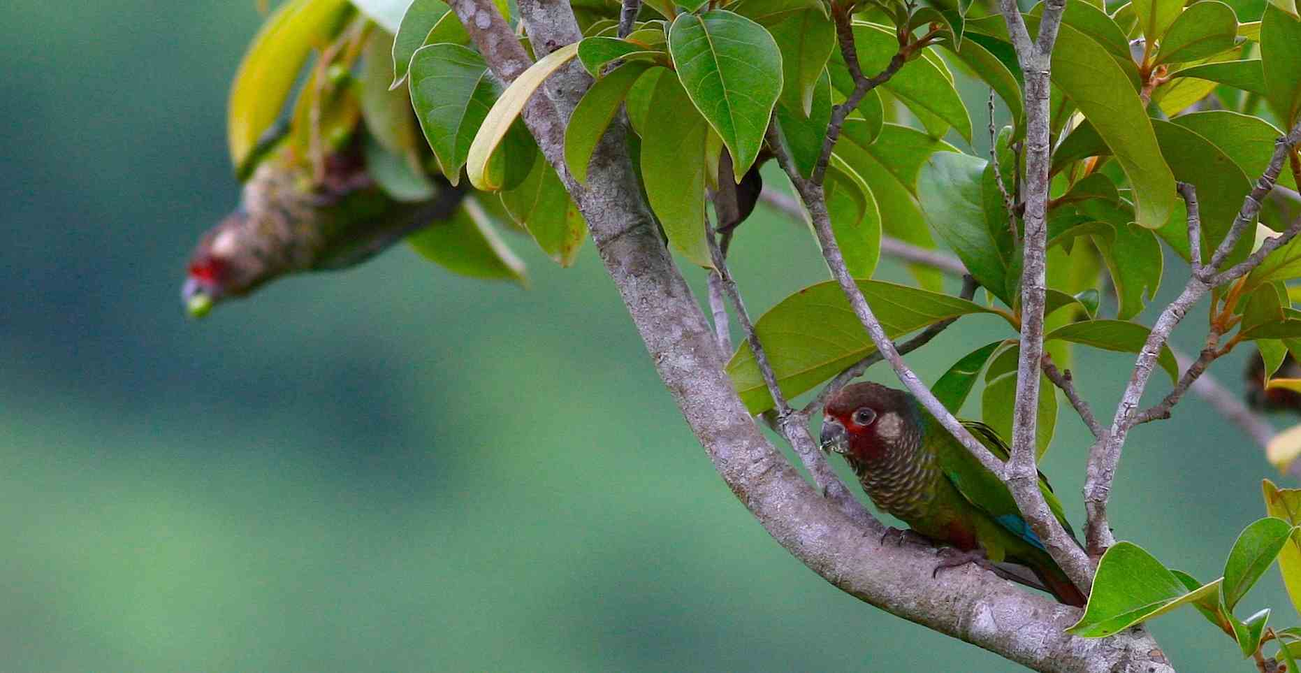 Azuero Parakeet (Panama endemic bird)